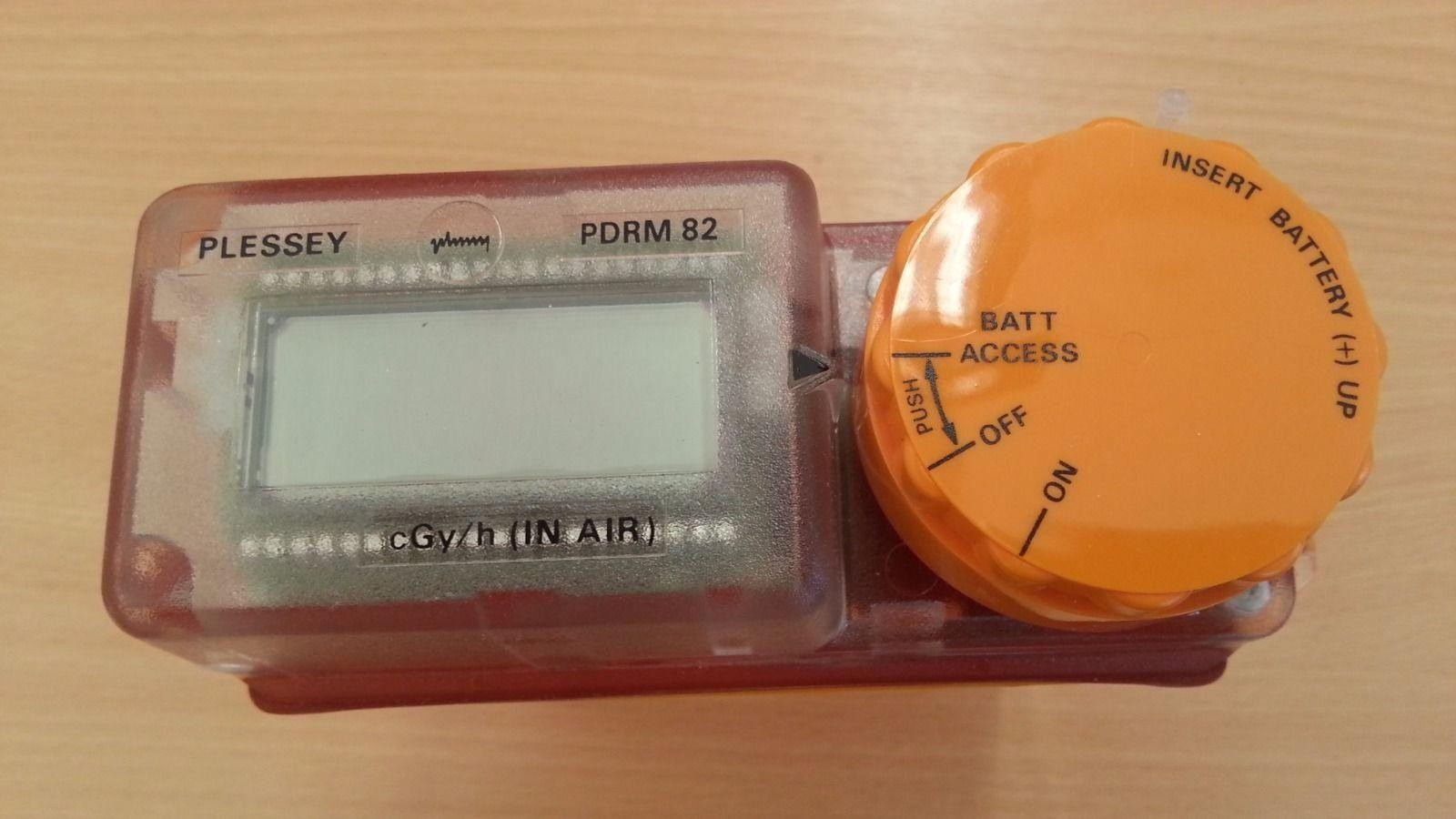 Photo showing the PDRM82 used by the Royal Observer Corps.